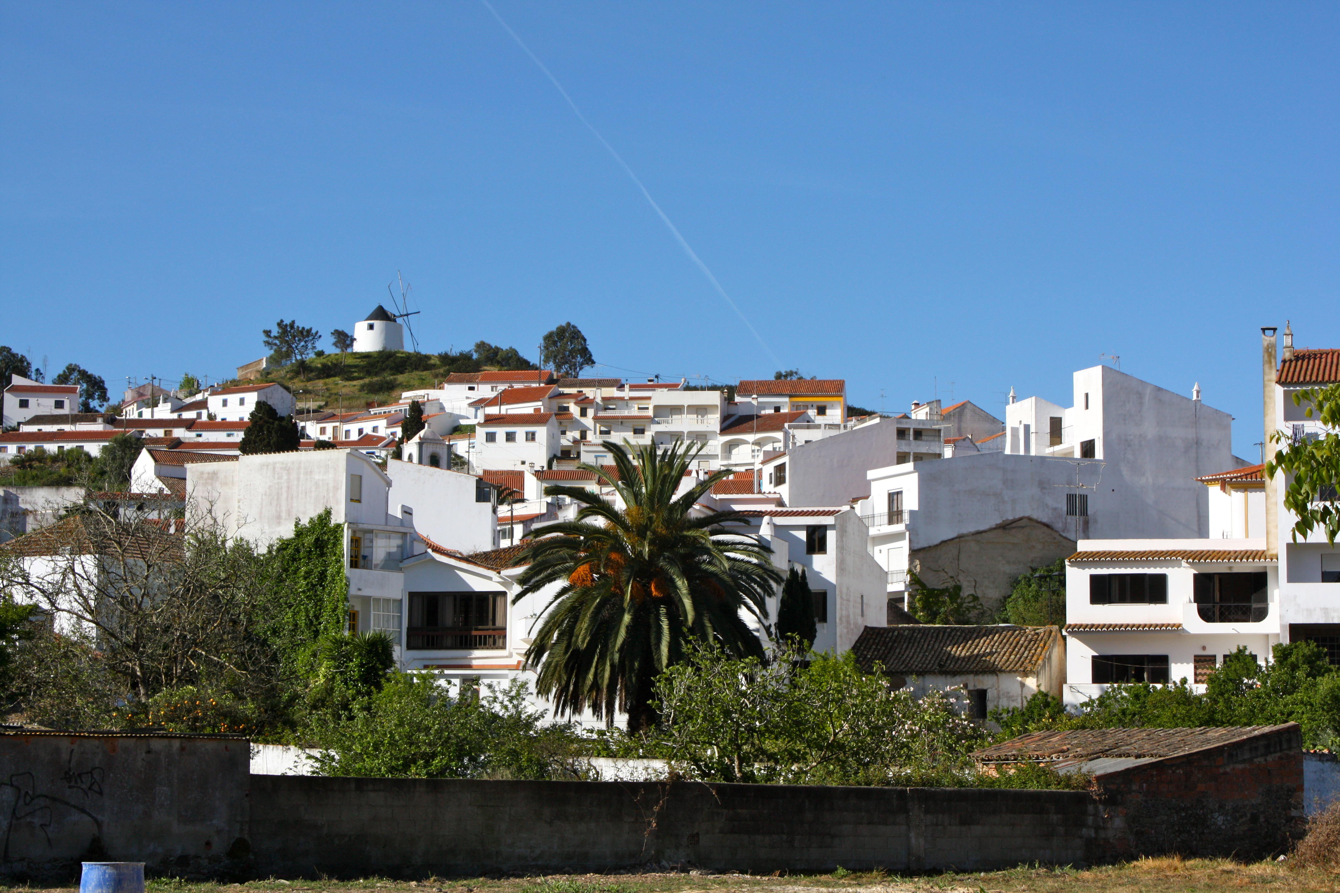 A view of the houses and windmill in the village of Odeceixe, Algarve, Portugal.